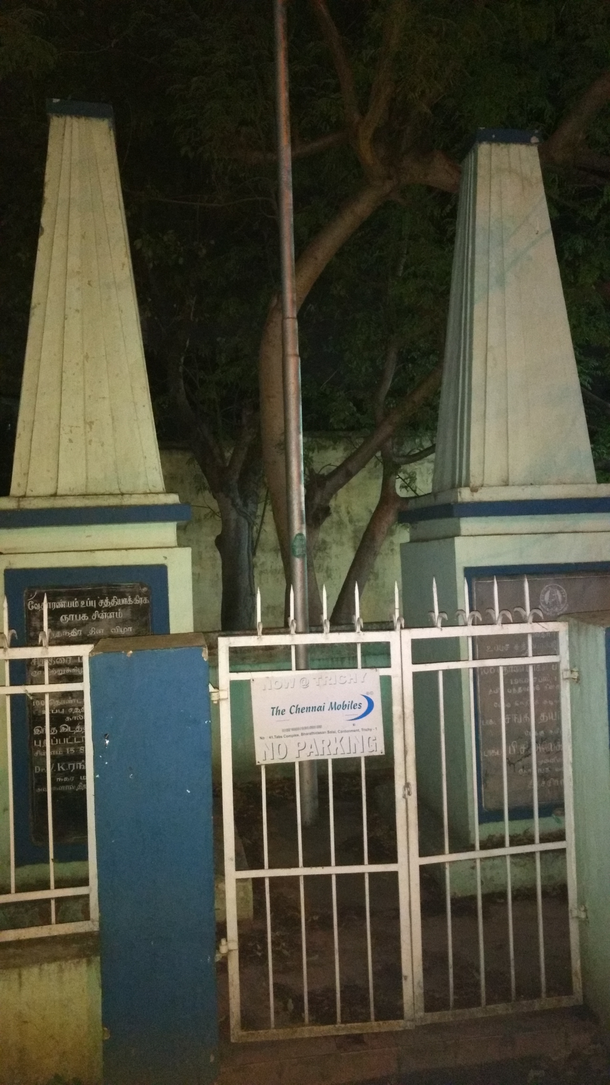 Pillars kept near Tiruchirappalli junction railway station in remembrance of Vedaranyam Satyagraha started from the spot on 13.April.1930 under the leadership of C.Rajagopalachari along with 100 of his followers on foot.